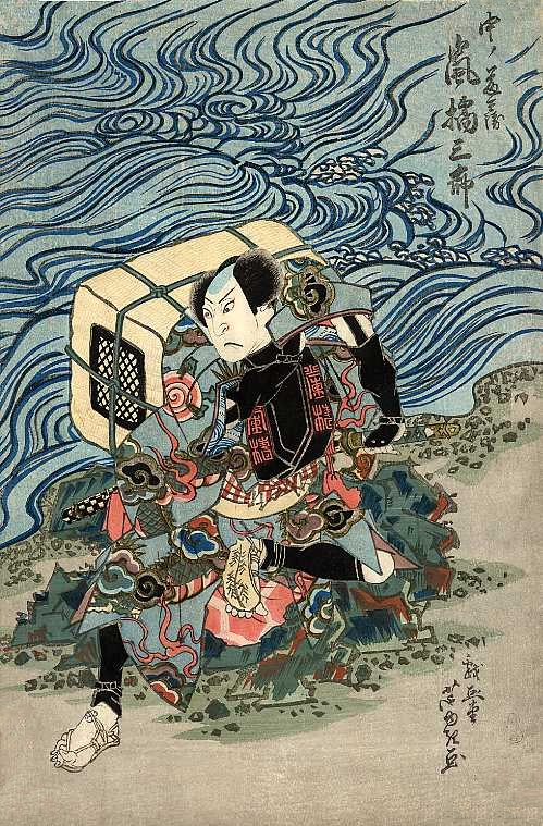 Woodblock print by Ashiyuki of kabuki actor Arashi Kikusaburō II in character